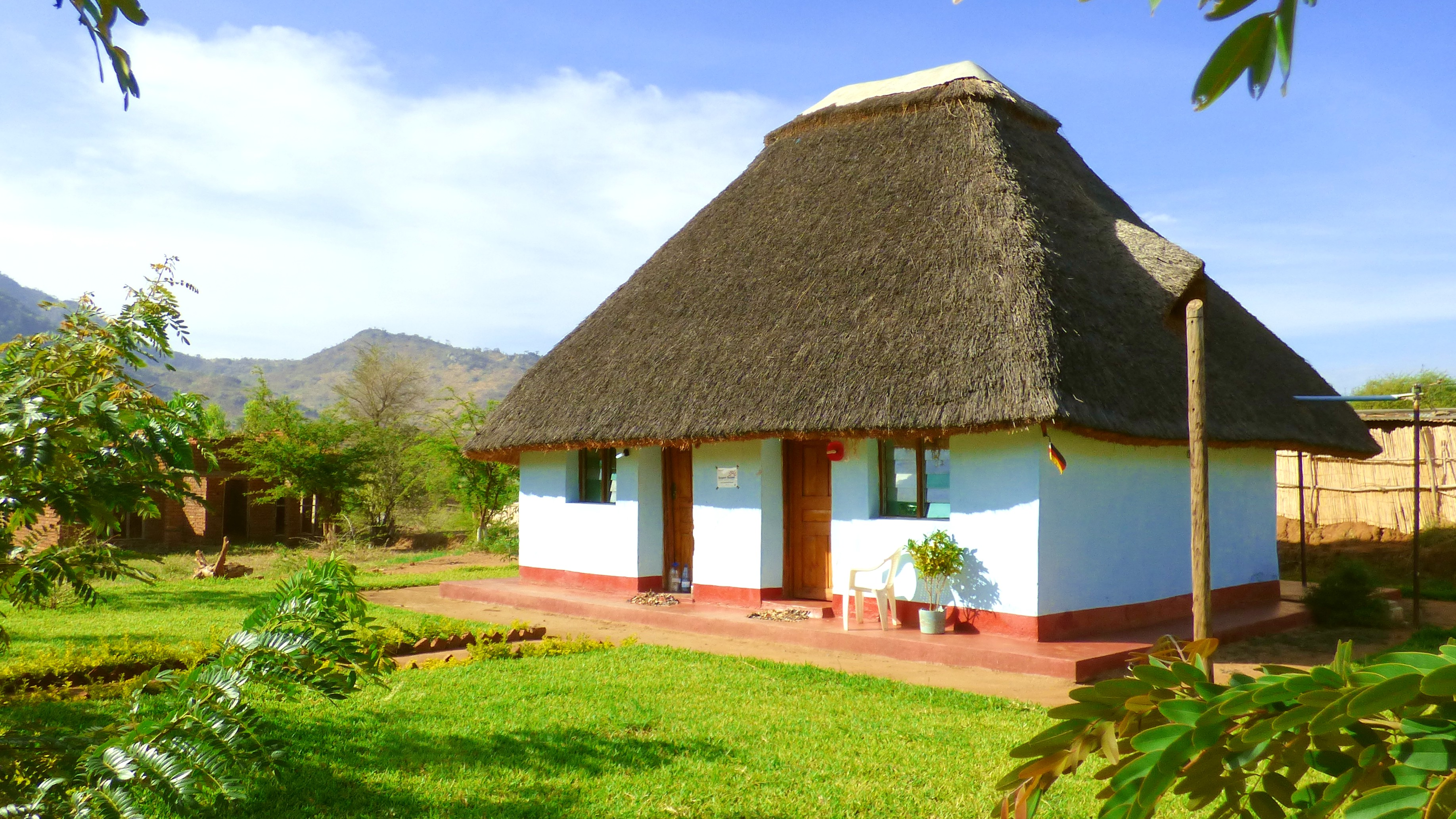 First earthbag house in Rumphi built with wall of stabled plastic bags filled with soil and sand.